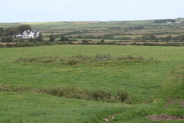 Cillin. An ancient burial site. Mostly flattened.